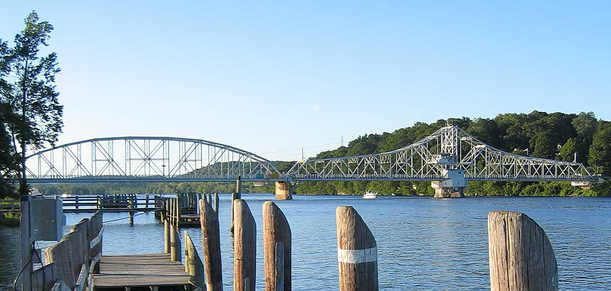 East Haddam (Connecticut) bridge. Swing bridge in the closed position